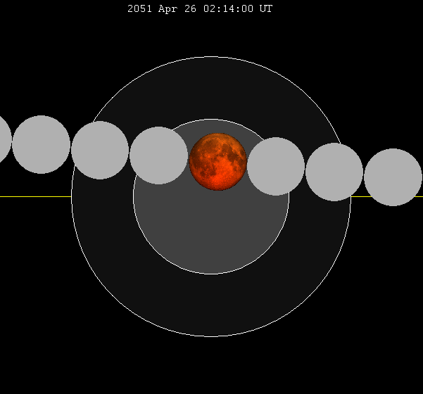 April 2051 lunar eclipse chart of moon's path through the earth's shadow. thumb